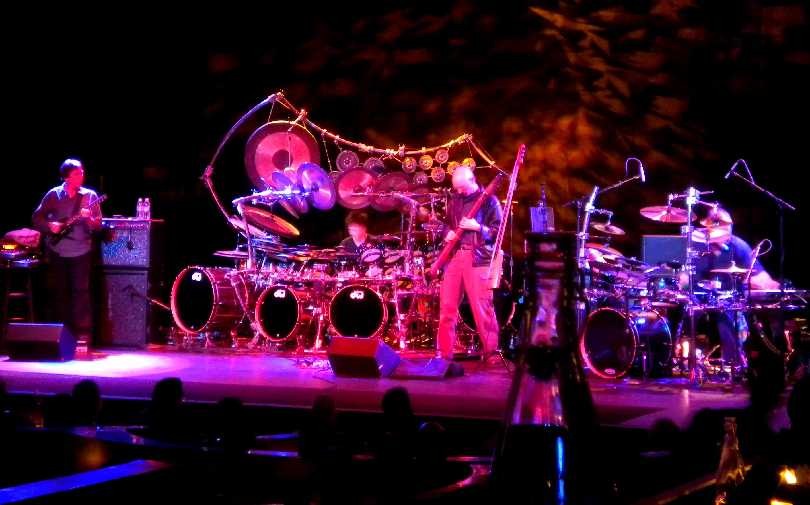 Alan Holdsworth, Terry Bozzio, Tony Levin and Pat Mastelotto performing at the Triple Door in Seattle, Washington on January 2nd, 2010.